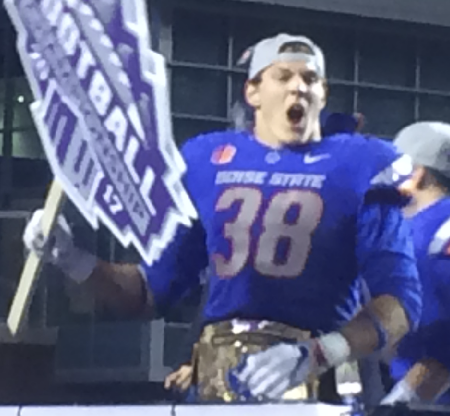 Leighton Vander Esch celebrating after winning the 2017 Mountain West Championship game on December 2, 2017 at Albertsons Stadium.